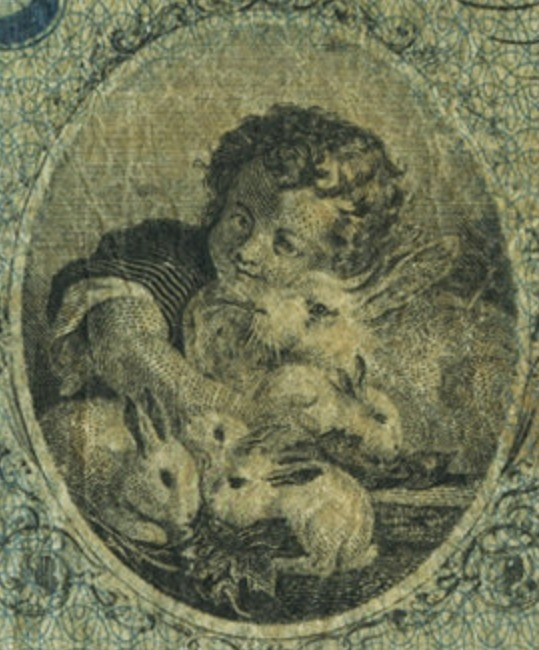 An artistic vignette adapted from the painting, Child with Rabbits by Solomon Nunes Carvalho. Unadilla Bank, $1 bill, Sept. 1, 1863, Eric P. Newman Numismatic Education Society, The Newman Numismatic Portal at Washington University in St. Louis.